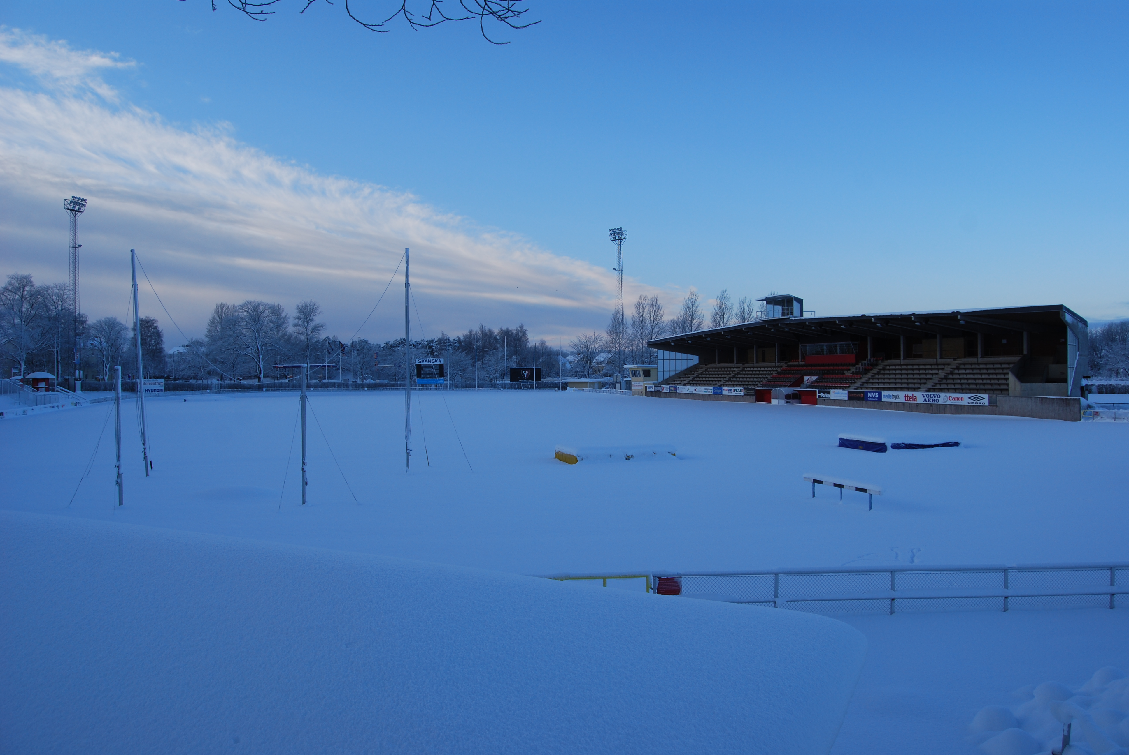 Edsborg IP, Trollhättan, Sweden in january.